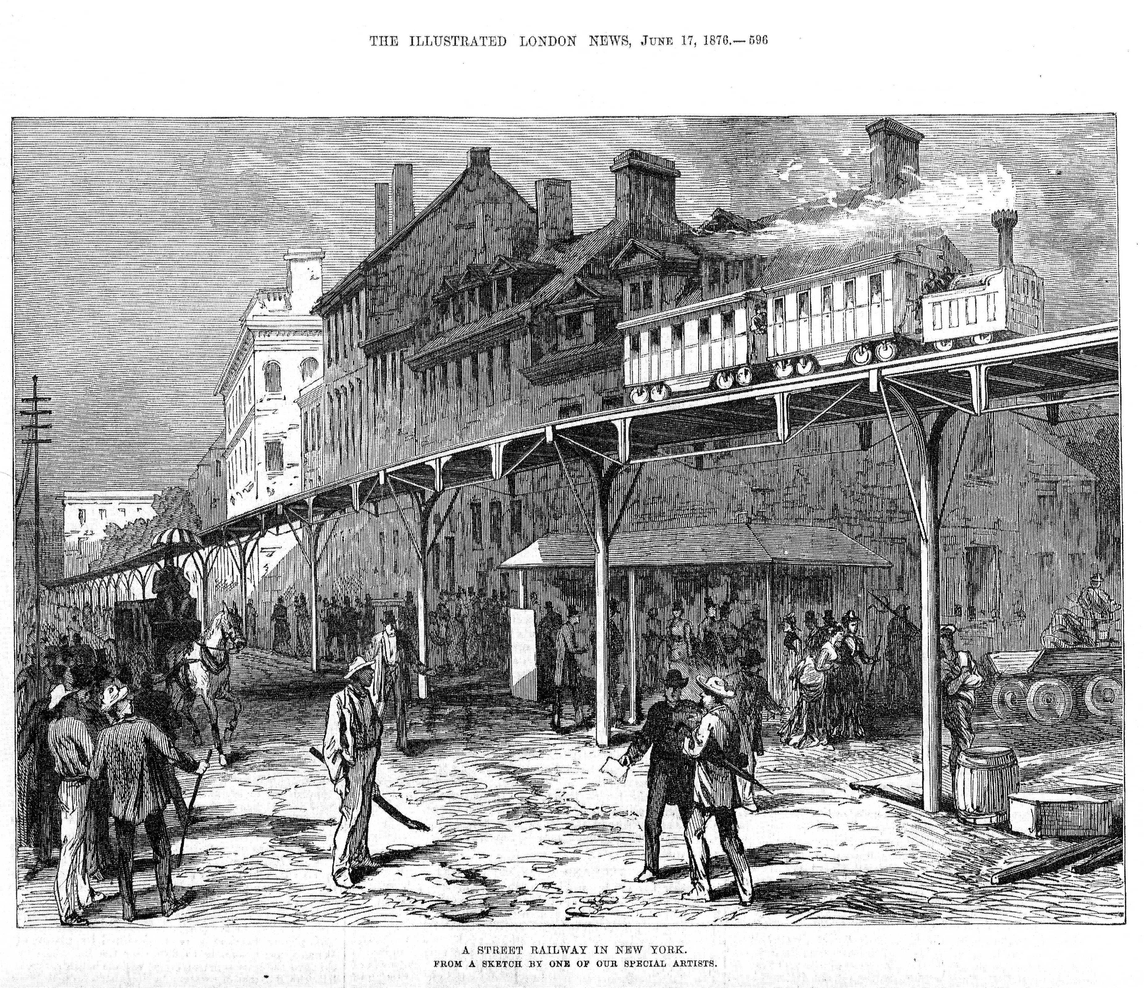 "A Street Railway in New York" - 1876 engraving showing a railway suspended above the ground on a narrow wooden track above a road, held up by Y-shaped beams